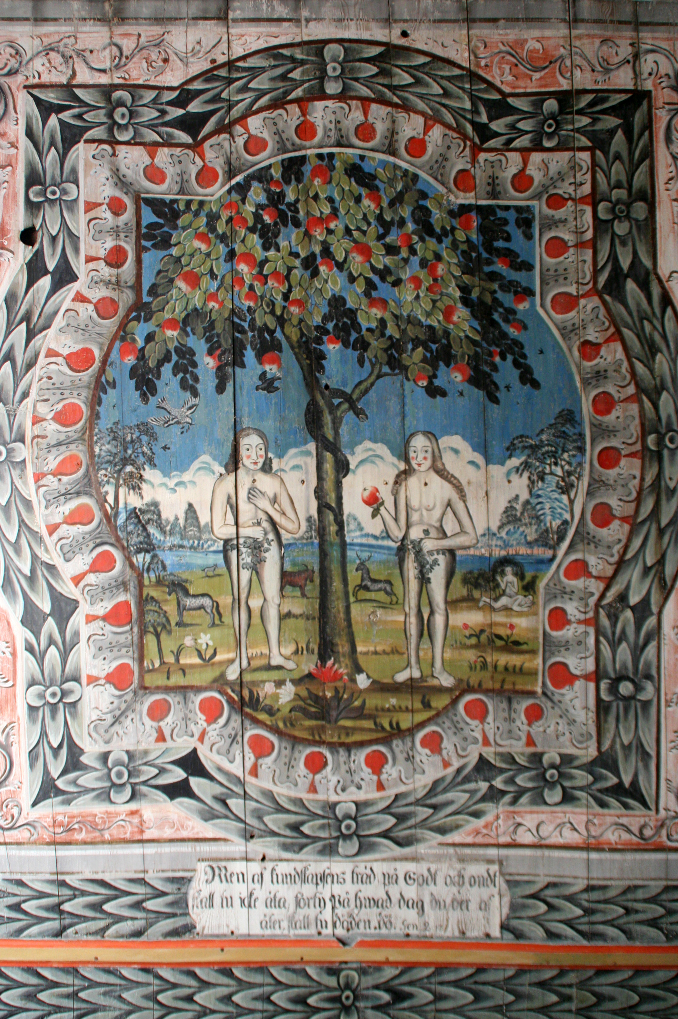 Suntak Old Church, Plafond by Anders Wetterlind, 1769